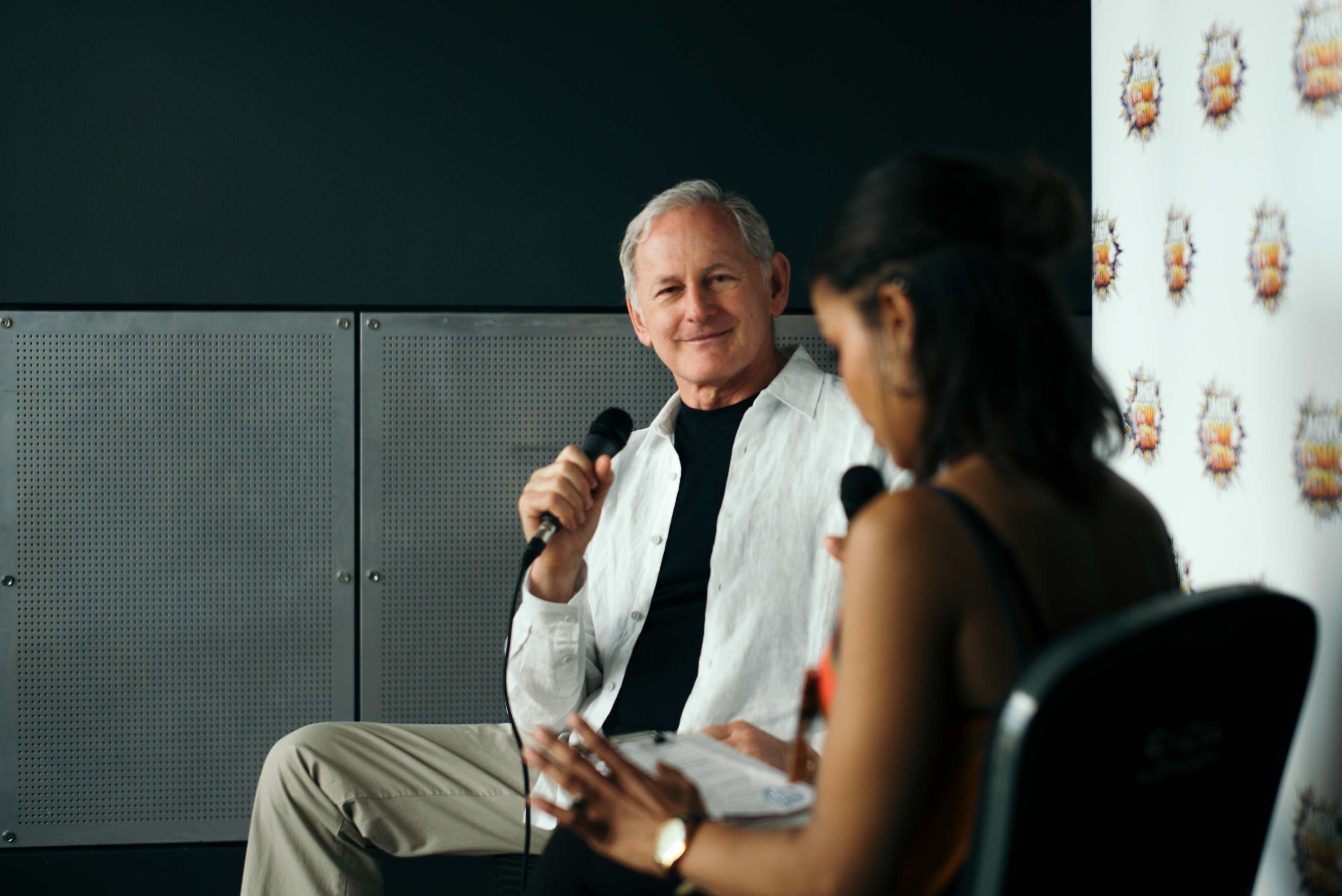 Actor Victor Garber interviewed at London MCM Comic Con, May 2017